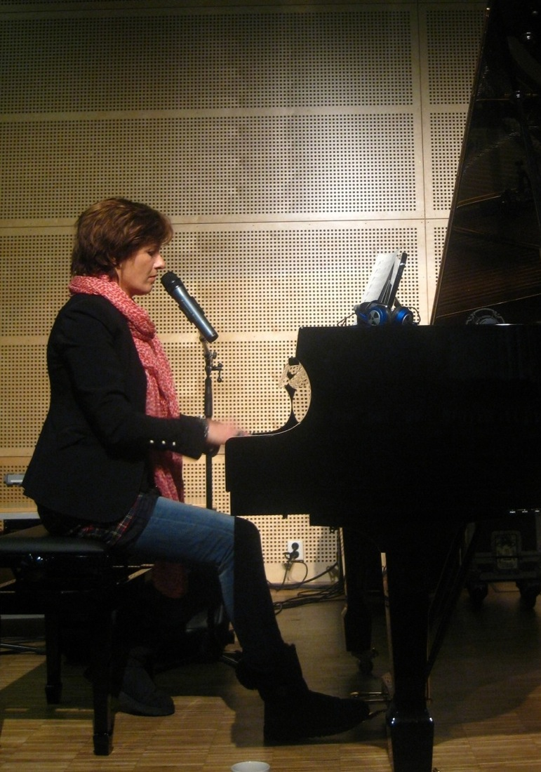 Oppsal school November 2010